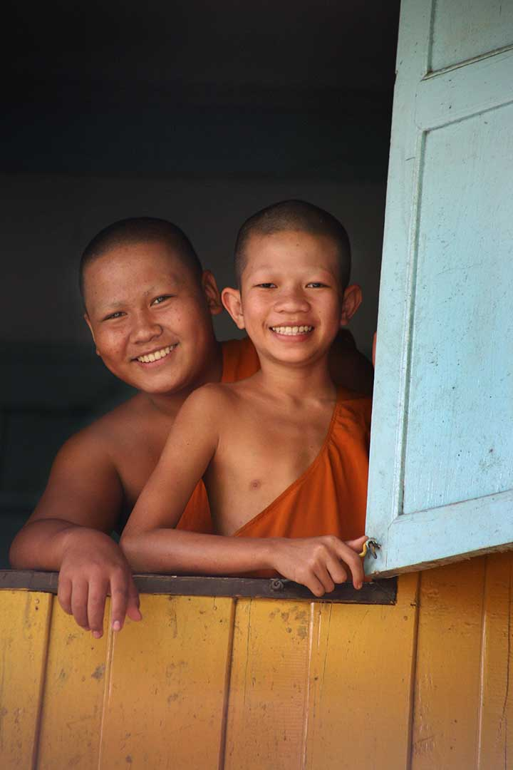 description:Young Thai Buddhist monks. photographer: Steve Evans photographer location: Atlanta, GA photographer_url: [1] flickr_url: [2]